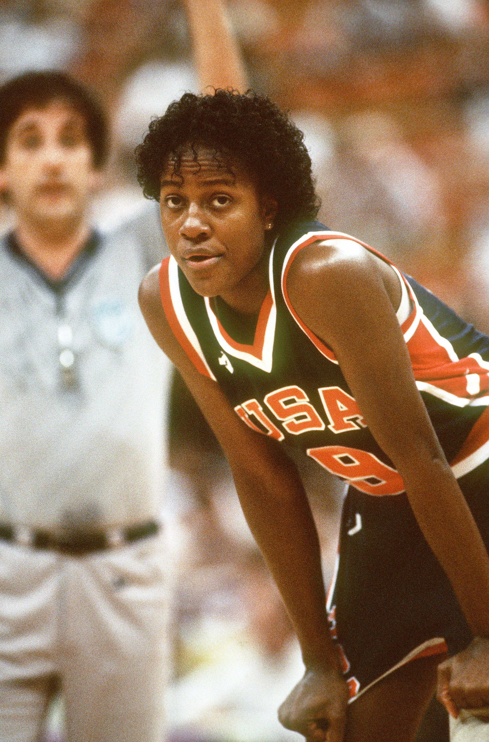 Clarissa Davis takes a quick breather while playing on the women's basketball team during the 10th Annual Pan American Games. The U.S. women's team went on to win a gold medal in the event.